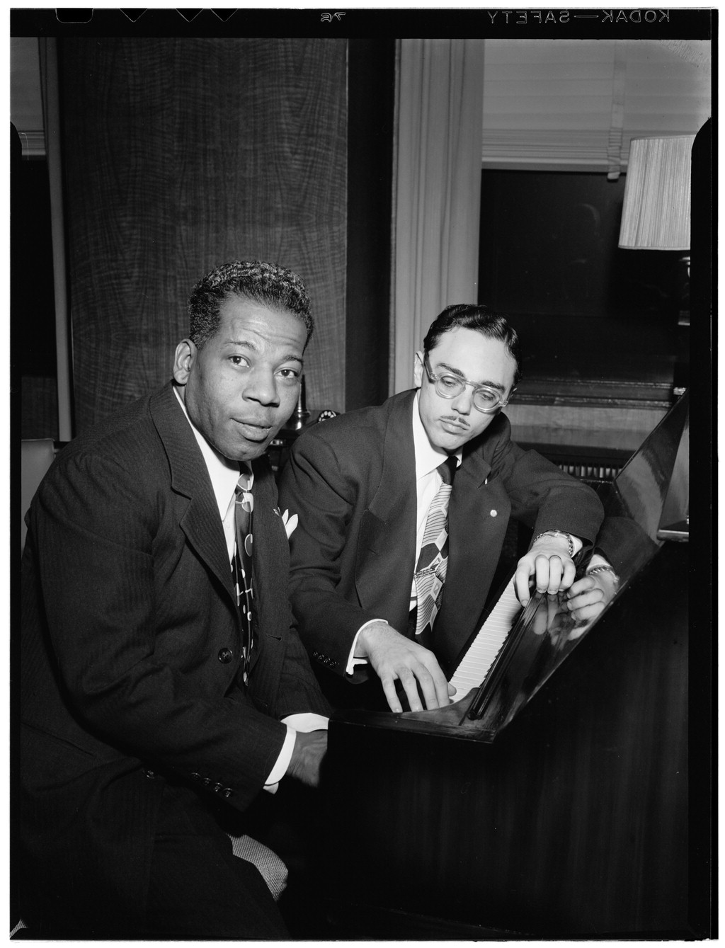 Gottlieb, William P., 1917-, photographer. [Portrait of Bernie Benjamin and George (George David) Weiss, New York, N.Y., ca. Apr. 1947] 1 negative : b&w ; 3 1/4 x 4 1/4 in. Notes: Gottlieb Collection Assignment No. 027 Purchase William P. Gottlieb Forms part of: William P. Gottlieb Collection (Library of Congress). Subjects: Benjamin, Bernie Weiss, George (George David) Composers--1940-1950. Format: Portrait photographs--1940-1950. Group portraits--1940-1950. Film negatives--1940-1950. Rights Info: Mr. Gottlieb has dedicated these works to the public domain, but rights of privacy and publicity may apply. Repository: (negative) Library of Congress, Prints & Photographs Division, Washington D.C. 20540 USA, Part Of: William P. Gottlieb Collection (DLC) 99-401005 General information about the Gottlieb Collection is available at Persistent URL: Call Number: LC-GLB13- 0988 This work is from the William P. Gottlieb collection at the Library of Congress. Rights and restrictions.In accordance with the wishes of William Gottlieb, the photographs in this collection entered into the public domain on February 16, 2010.